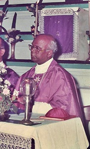 Bischof Mathias Kappil von Punalur (1928-2007) in der Kirche von Kumbalam, 1987